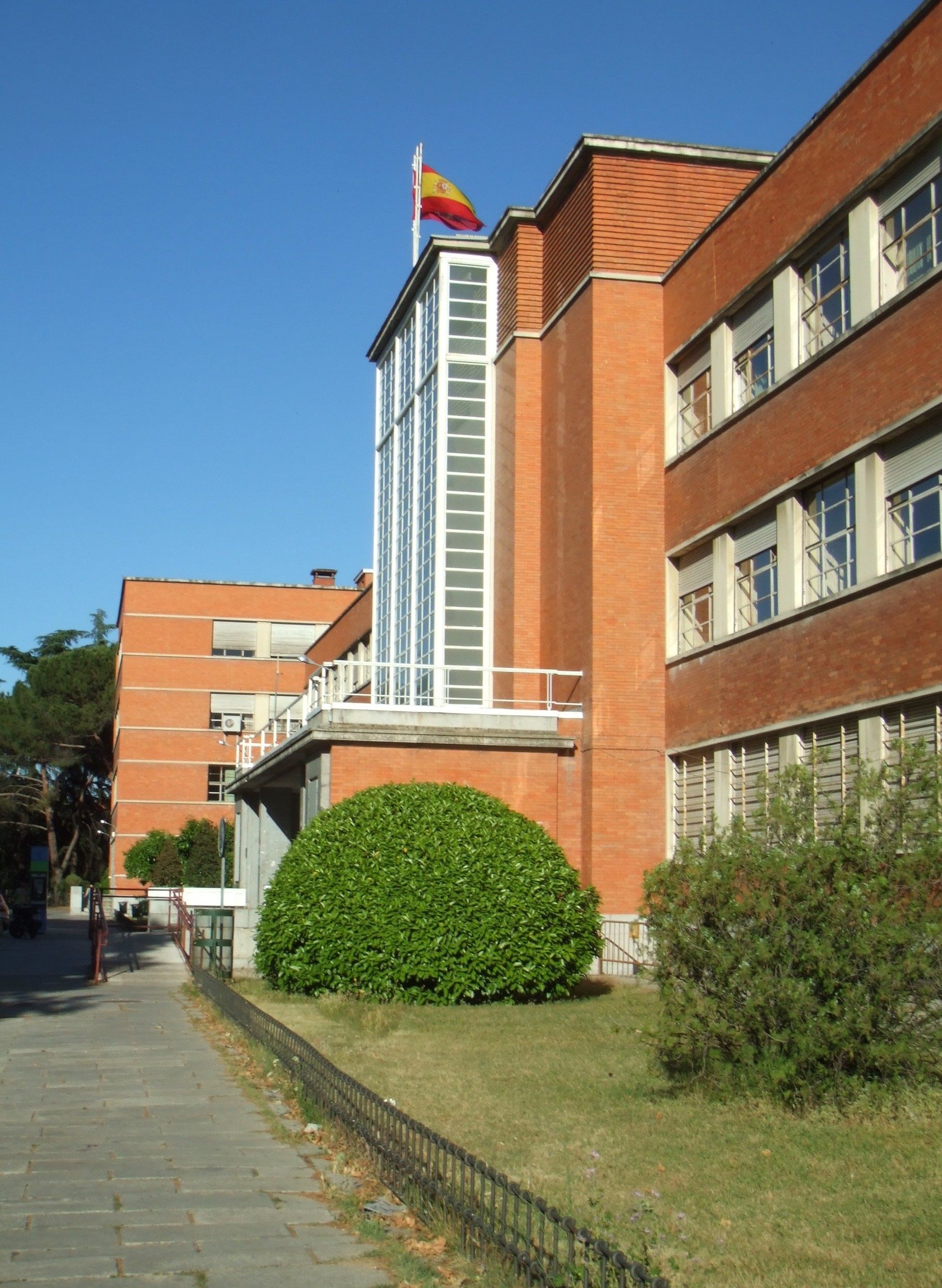 School of Philosphy and letters, Complutense University